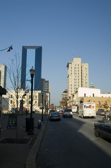 Looking along East Main Street, near Phoenix Park in downtown Lexington. The "Big Blue" building on the left is the Lexington Financial Center.